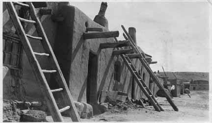 Adobe buildings with ladders, Northside of Jemez Pueblo, New Mexico